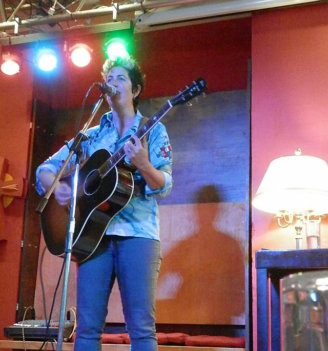 Camille Bloom, Singer/Songwriter from Seattle, USA